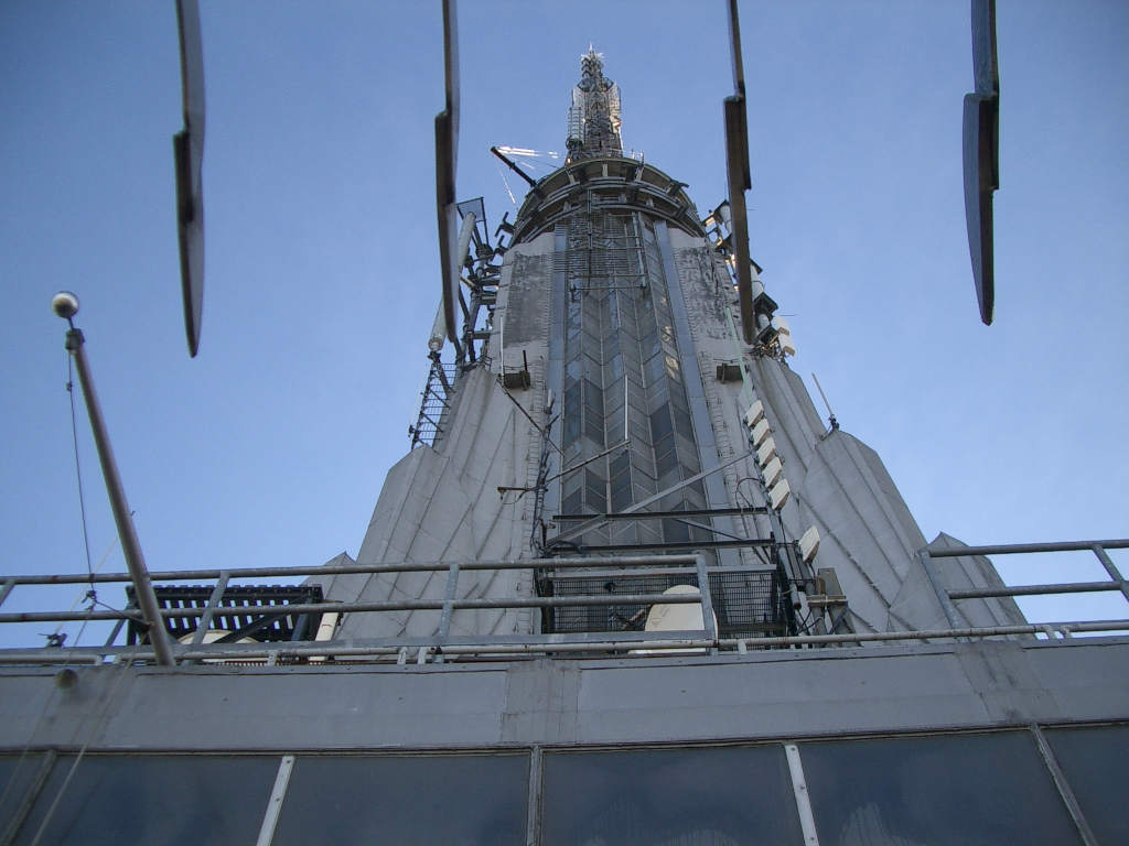 Looking up at the Empire State Building.